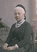 Maria of Hannover (1818-1907)